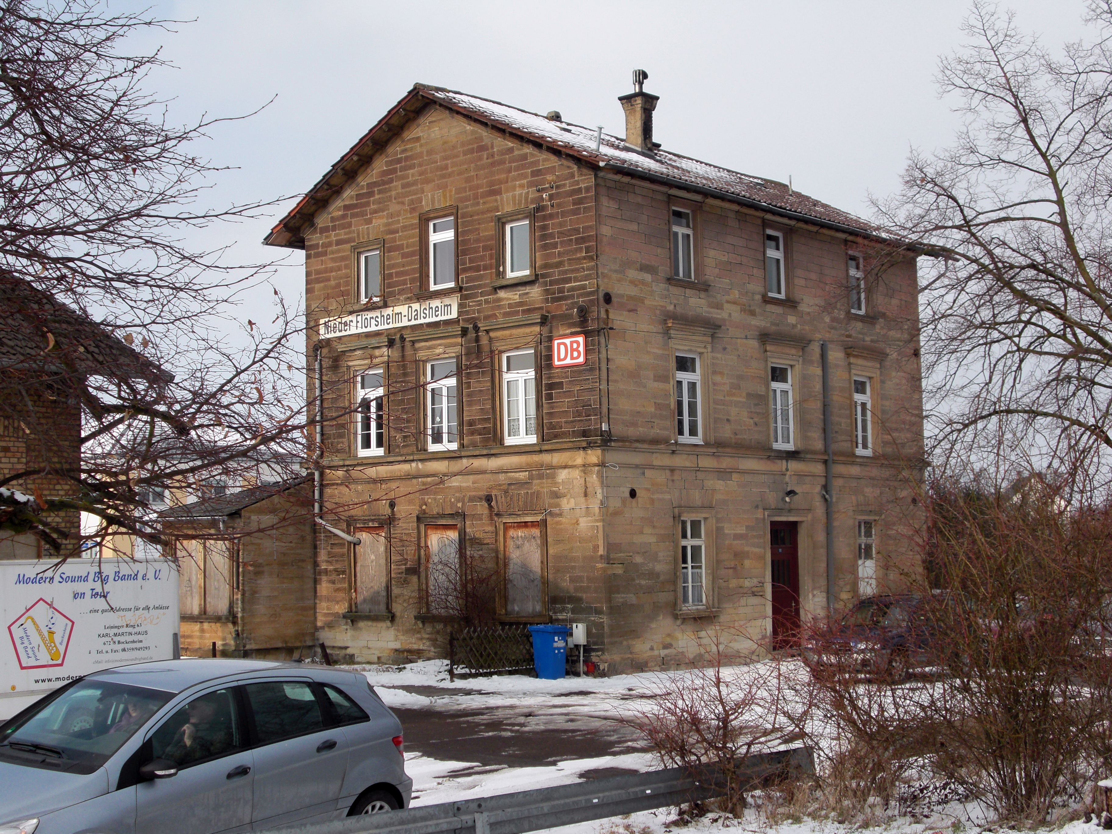 Train station of Flörsheim-Dalsheim